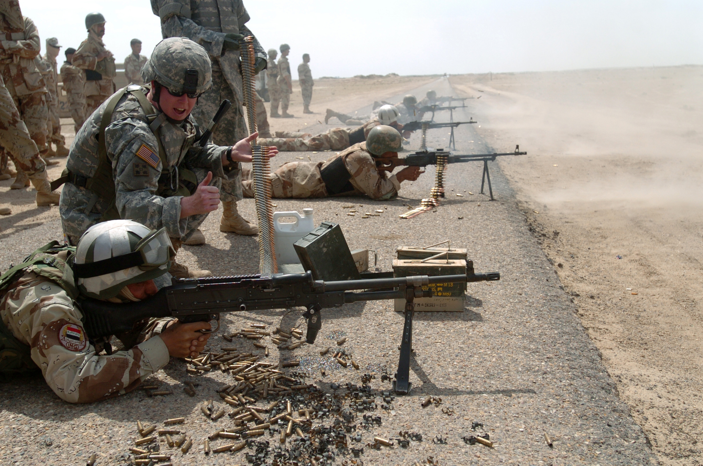 Musayyib, Iraqi (April 27, 2006) - Commander, of Company B, 2nd Battalion, 8th Infantry Regiment, 2nd Brigade Combat Team, 4th Infantry Division, Capt. Colin Brooks, helps an Iraqi Army soldier fire rounds down range during a training evolution. The B Company 2-8 Soldiers are conducting a two-week basic military training with the Iraqi Army. U.S. Navy photo by Photographer's Mate 2nd Class Katrina Beeler (RELEASED)